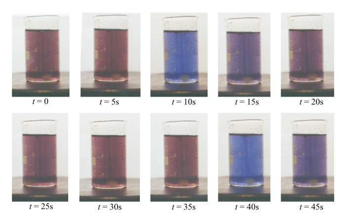 Belousov-Zhabotinsky_reaction self drawn